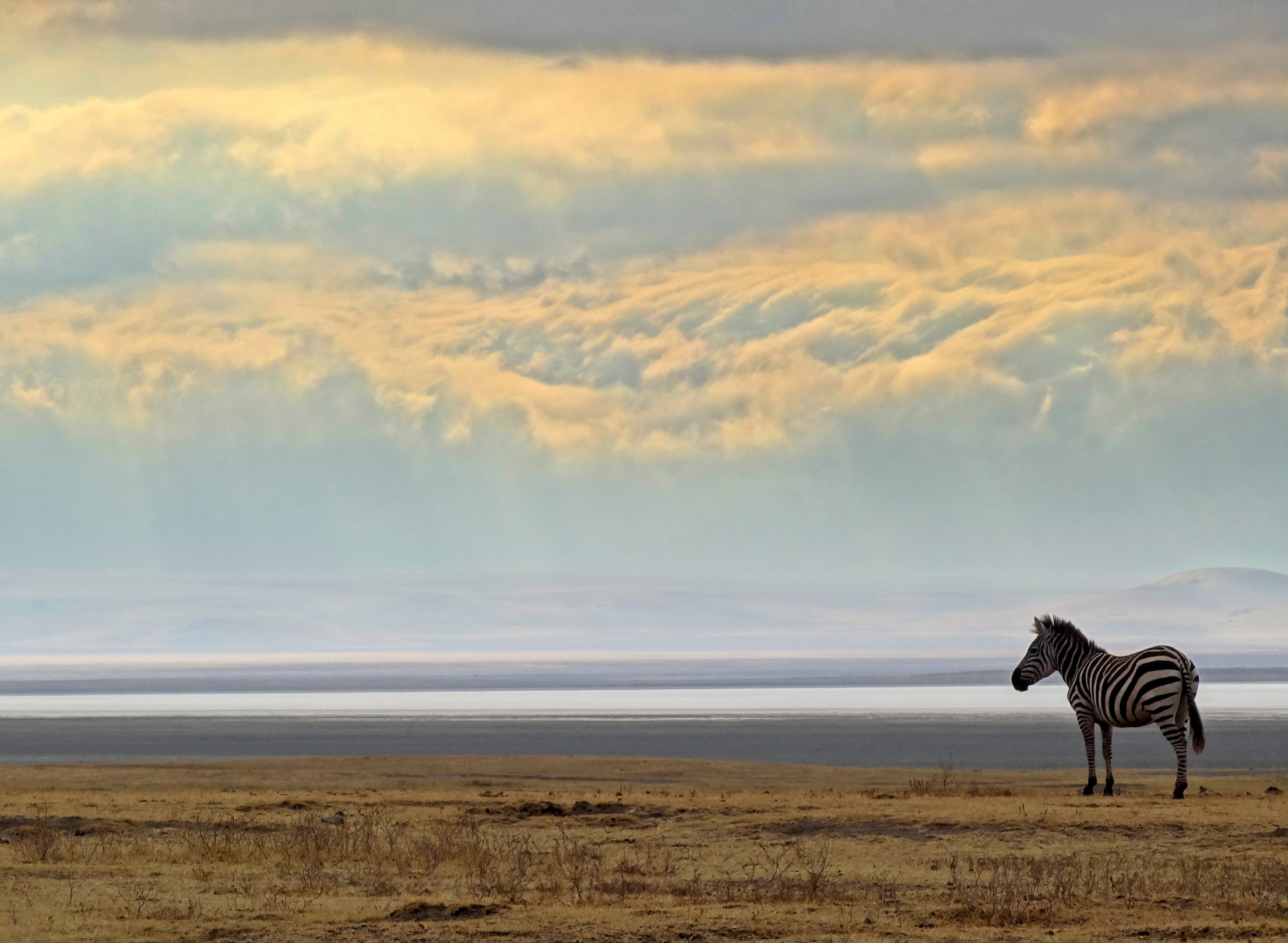 A plains zebra inside the crater. Early in the morning the crater walls are often completely covered in clouds that flow down from outside the rim, creating the illusion that the plains are wider than they really are.